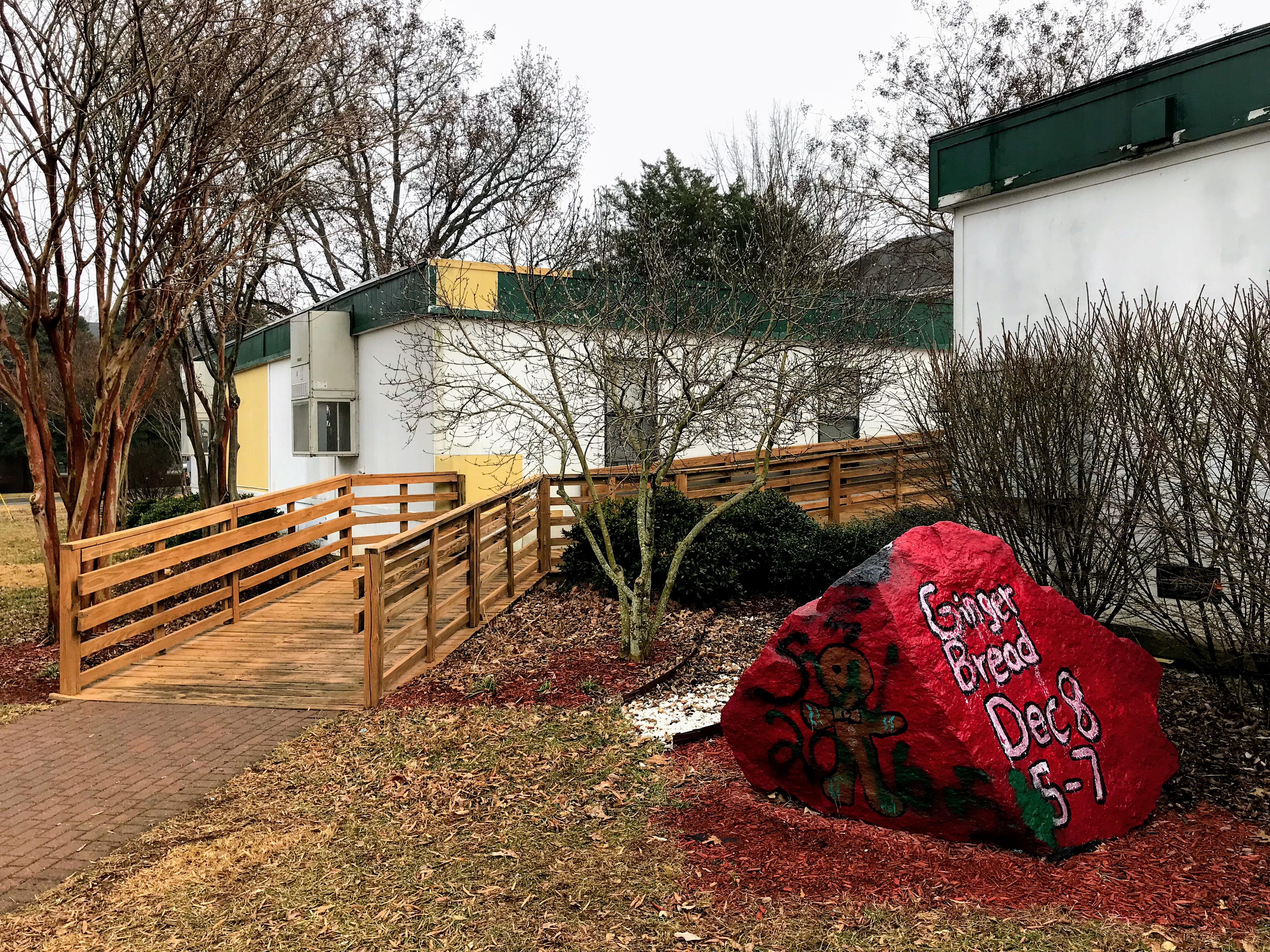 Exterior view of the The Early College at Guilford modular buildings and ramp, which house underclassmen class meetings.